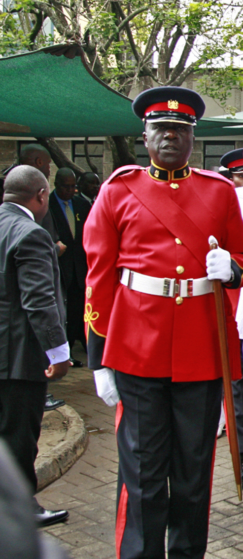 Poll bearers at a dignitary's burial. This is an image of "African people at work" from Kenya